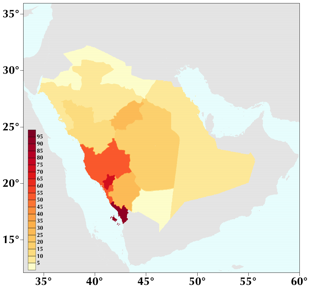 Saudi Arabia 2010 estimated population density. Data